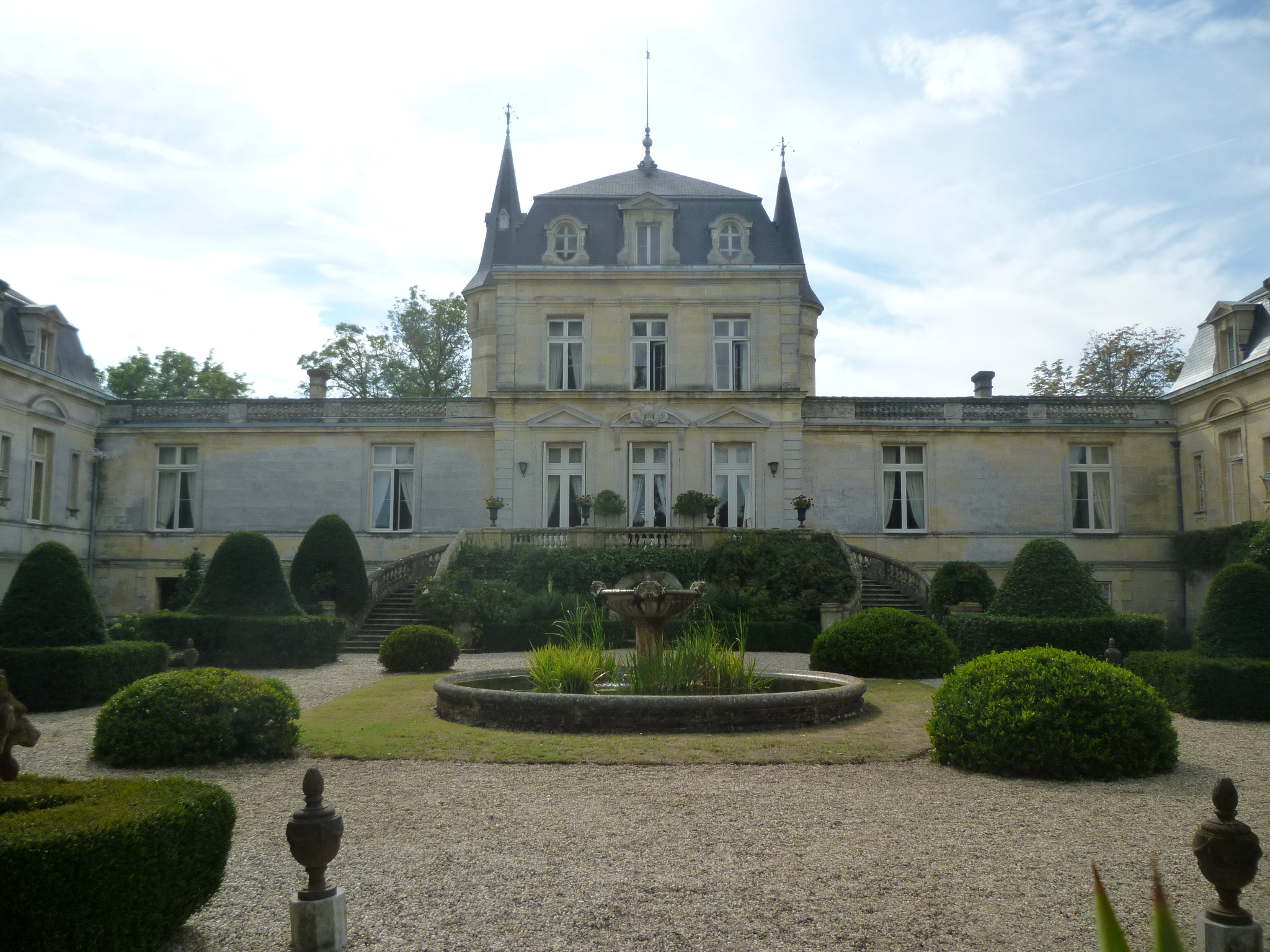 summer 2012 .